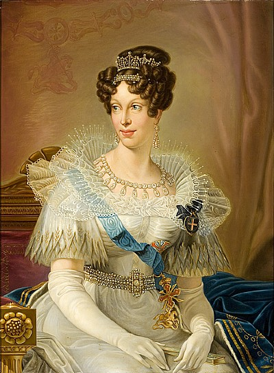 Marie Louise of Austria, duchess of Parma (1791-1847)